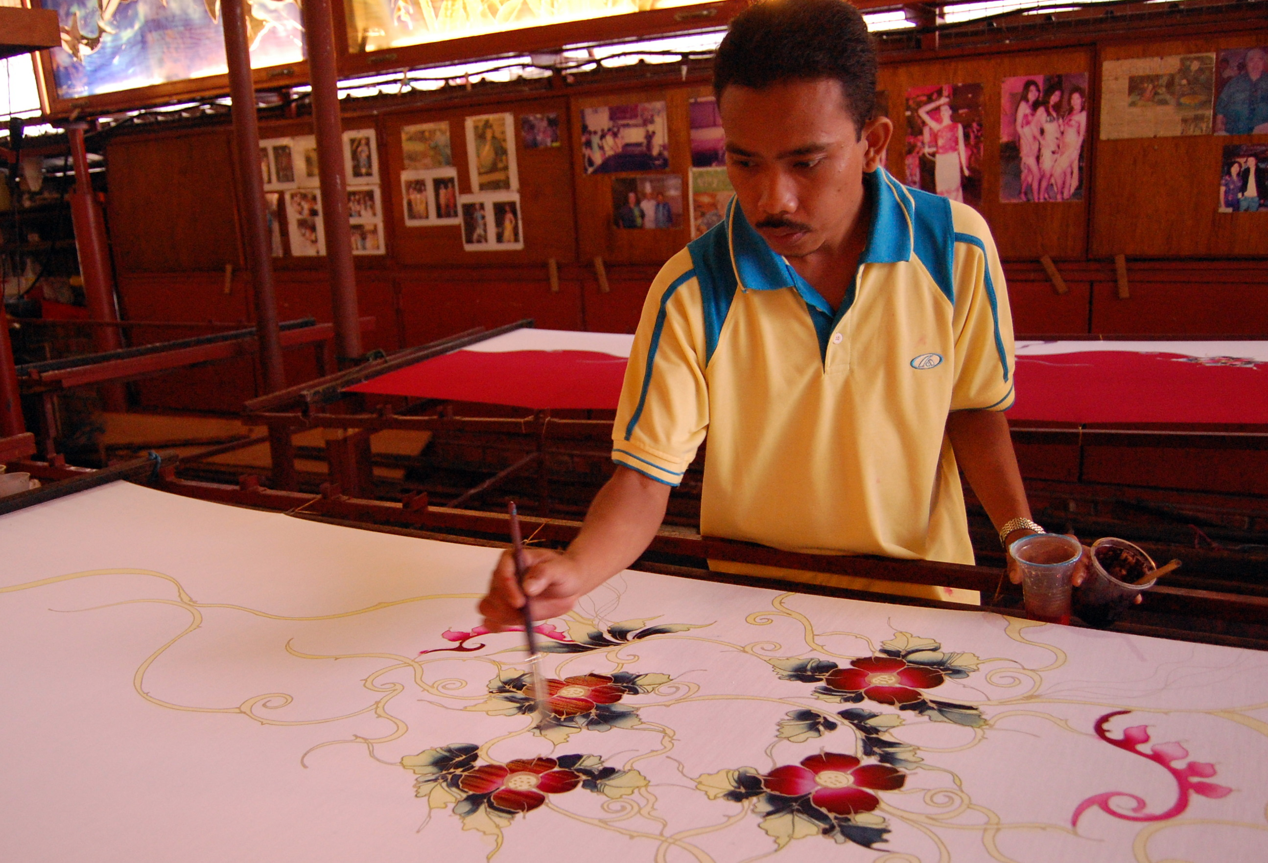 A batik craftsman shows his skills at Kuala Lumpur’s Jadi Batik Centre. Nikon D40 (DTP Course on Trade and Human Rights, March 2008).